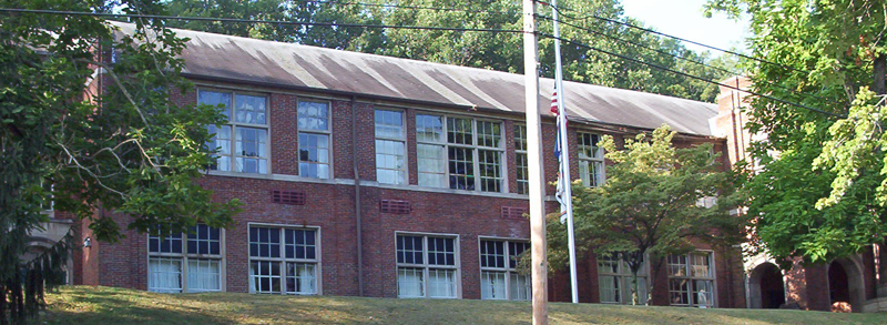 The Benham Schoolhouse Inn, a former school which has been converted into a hotel in Benham, Kentucky